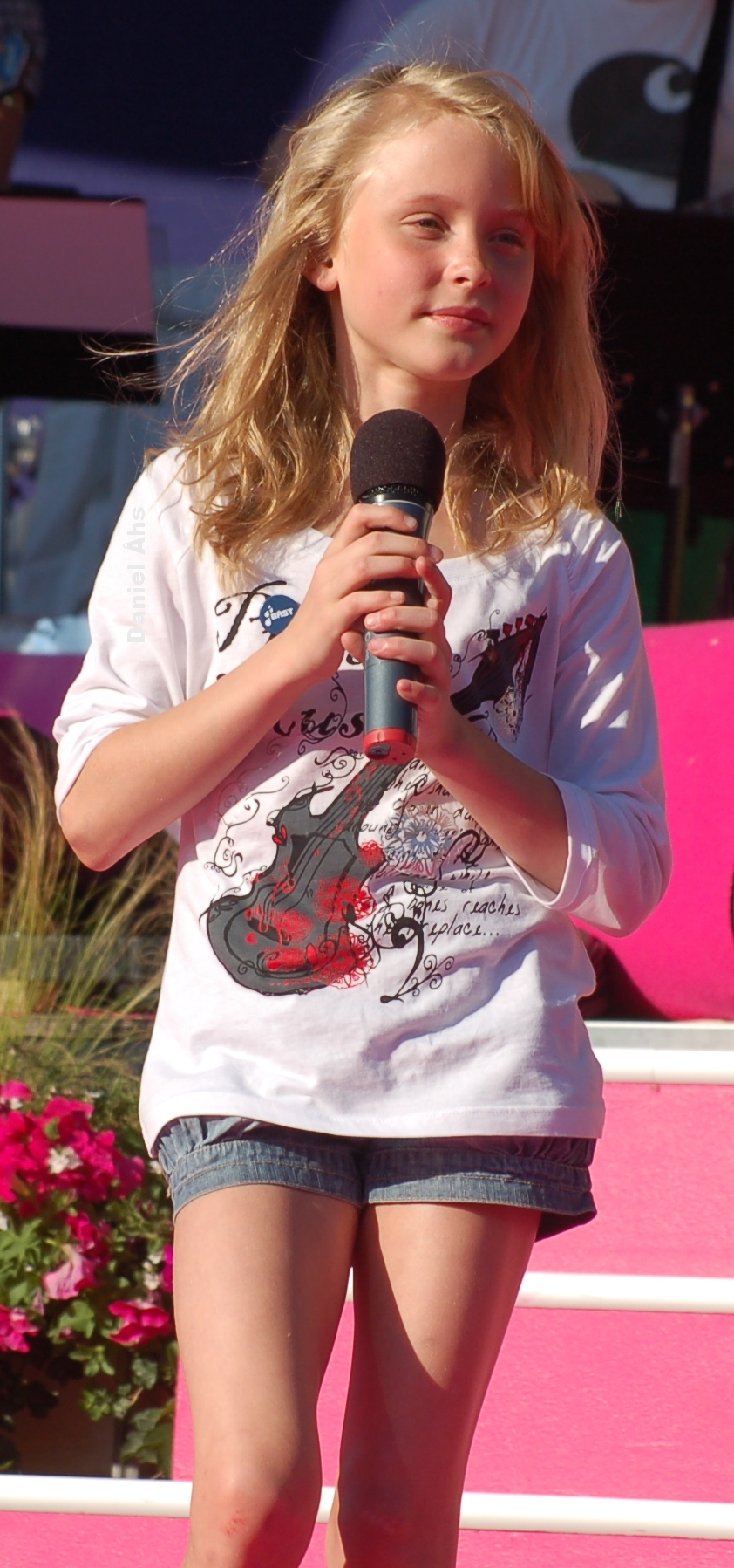 Zara Larsson at Gröna Lund, Stockholm.